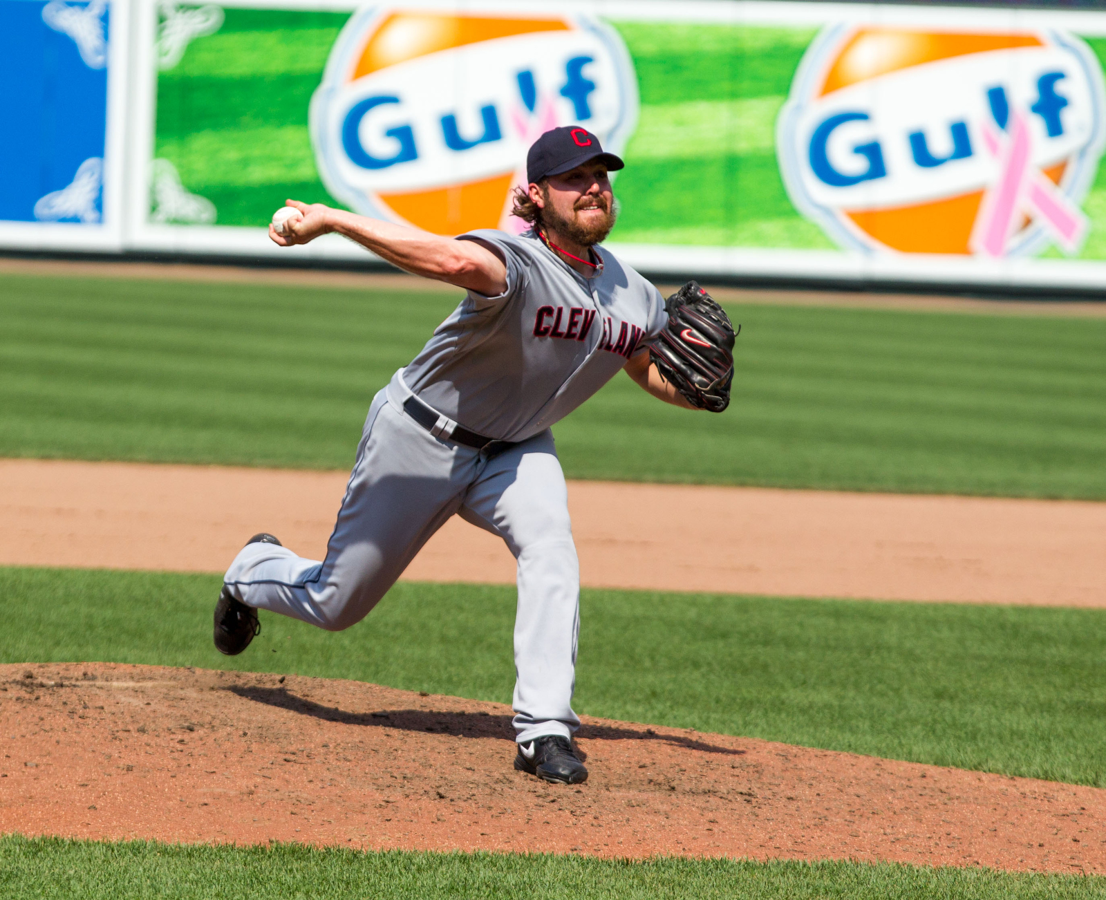 Chris Perez, the closer for the Cleveland Indians.